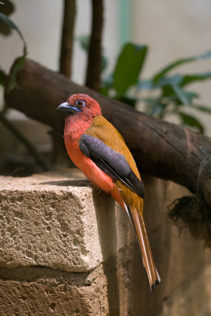 Red-headed Trogon Harpactes erythrocephalus, photo taken in an aviary in Zürich, Switzerland